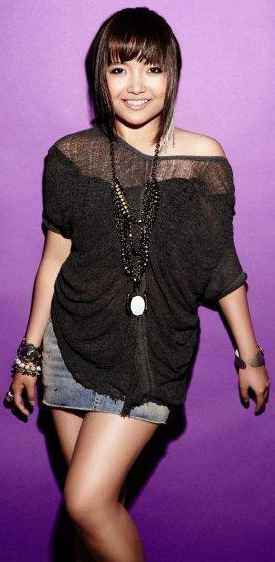 Charice 2011